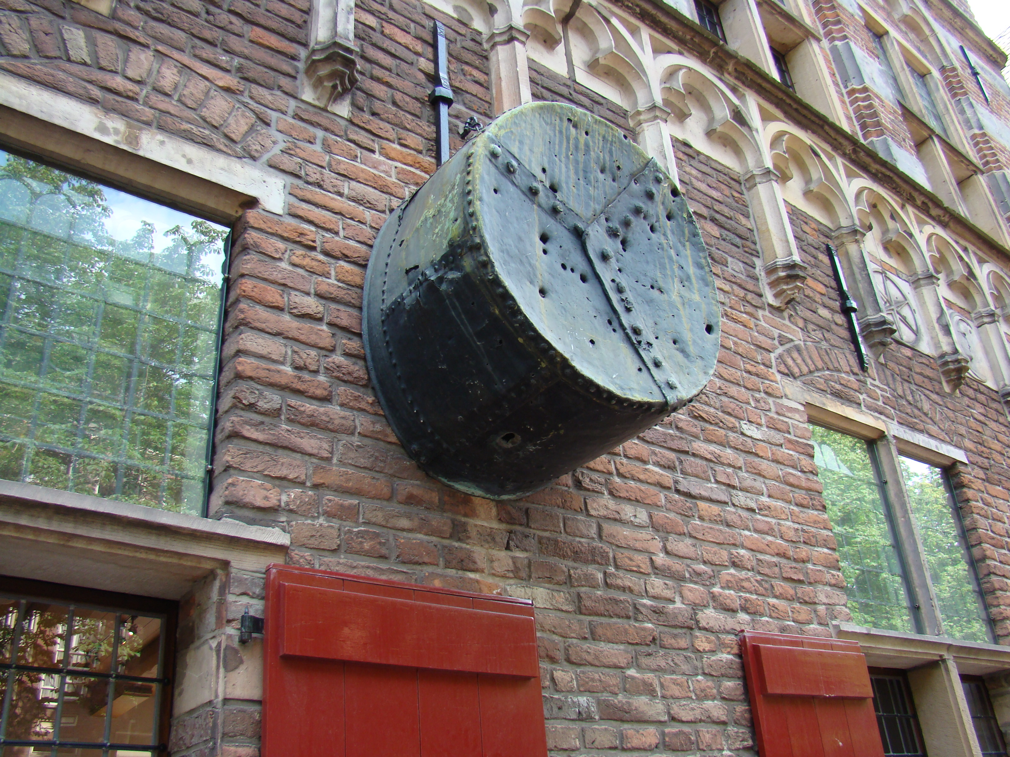 Cookingpot, for boyling humans in Deventer